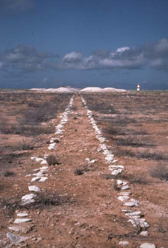 Remains of a guano tramway on Jarvis Island in the central Pacific Ocean